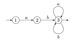 Automaton recognizing all words over two symbols a and b starting with ab